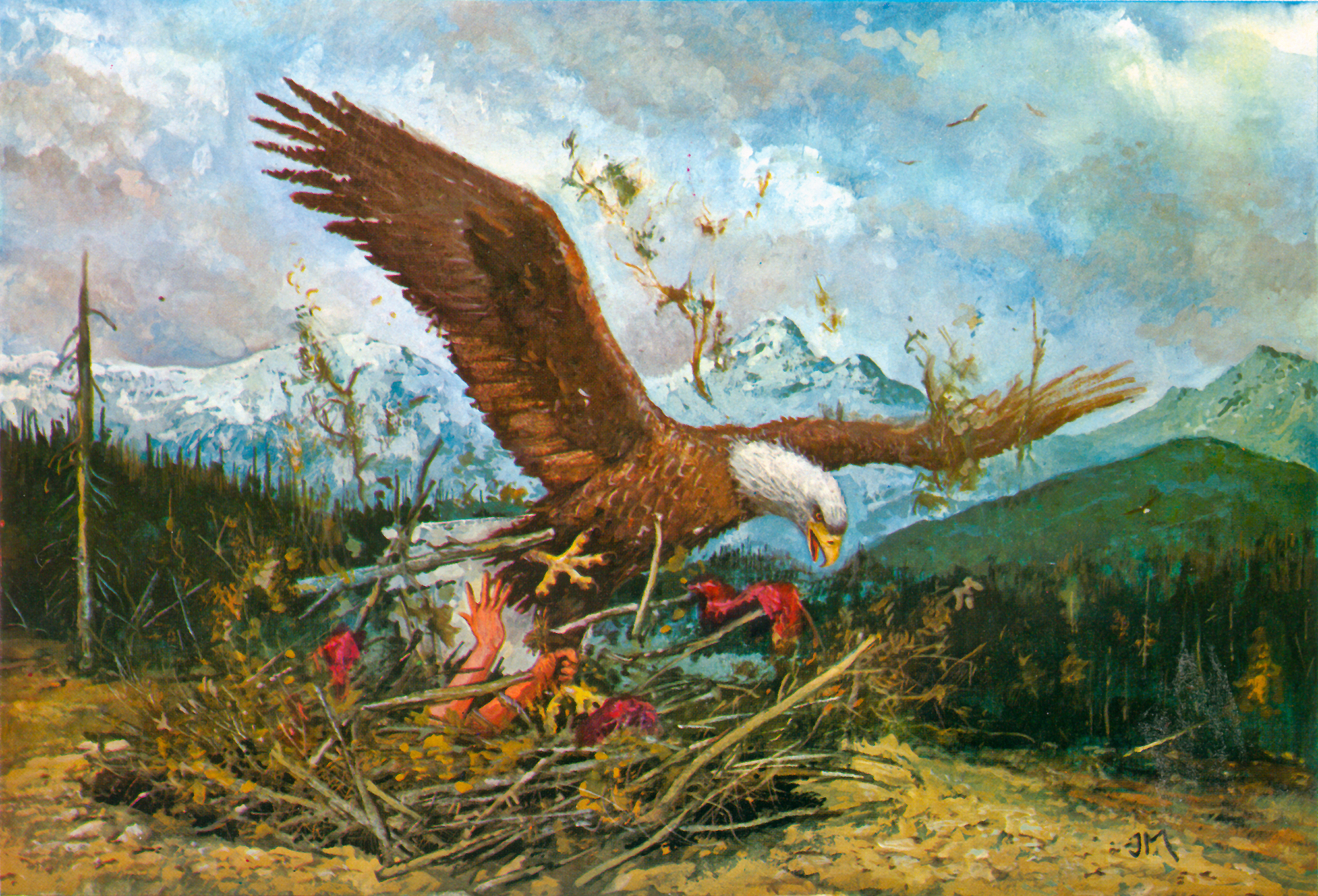 Indian Eagle Trapping